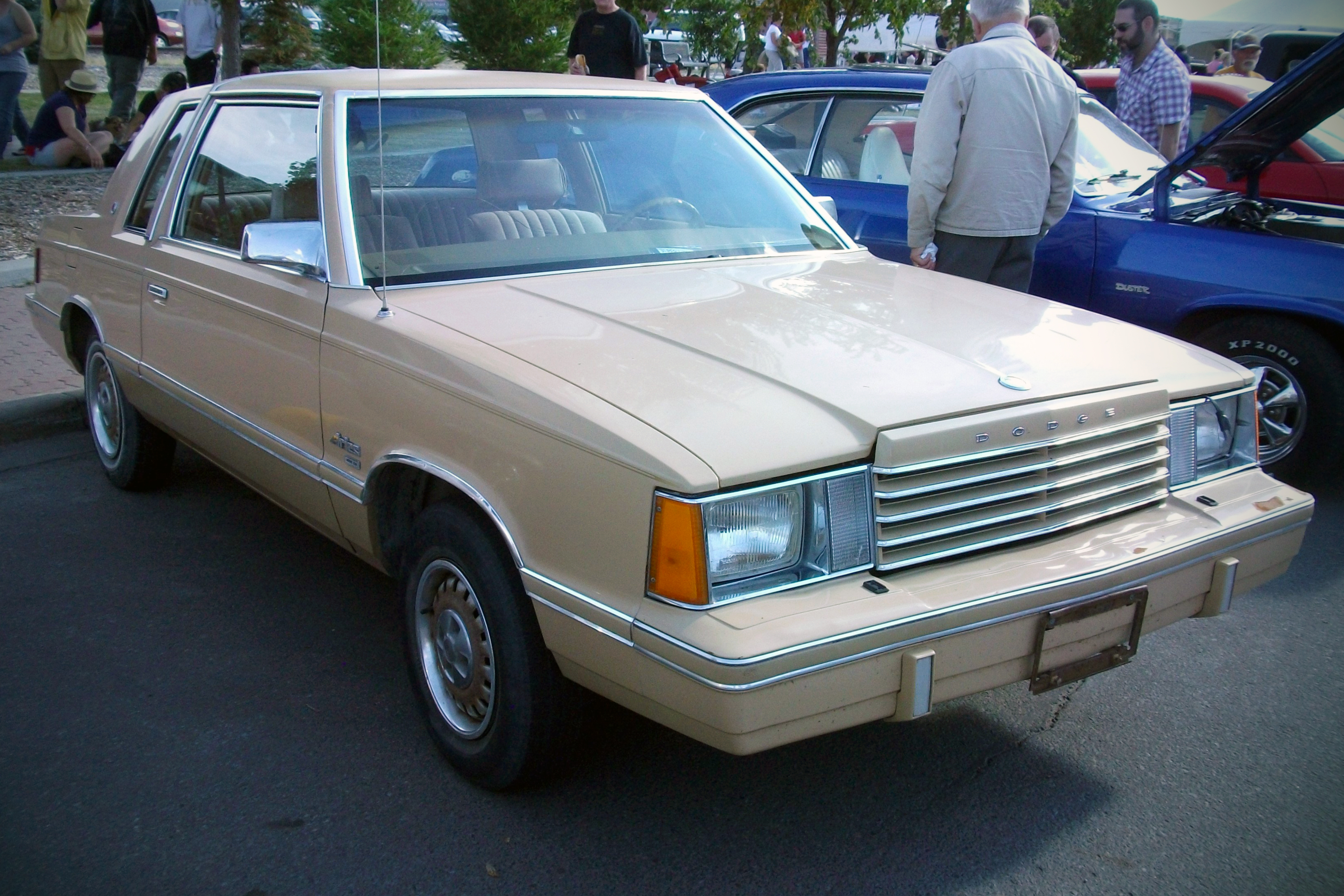 A 1981 Dodge Aries coupé, in Canada